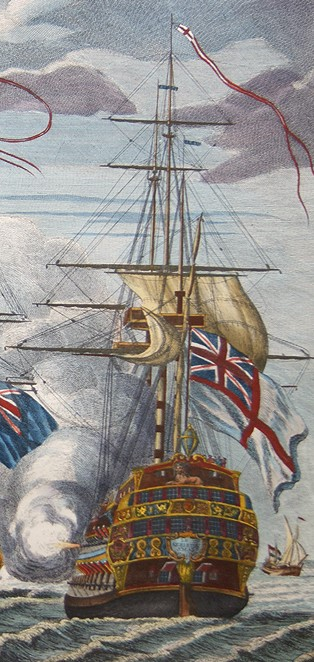 The stern view of the HMS Intrepid, a 64-gun third rate ship of the line, which was captured from the French at the Battle of Cape Finisterre in 1747.